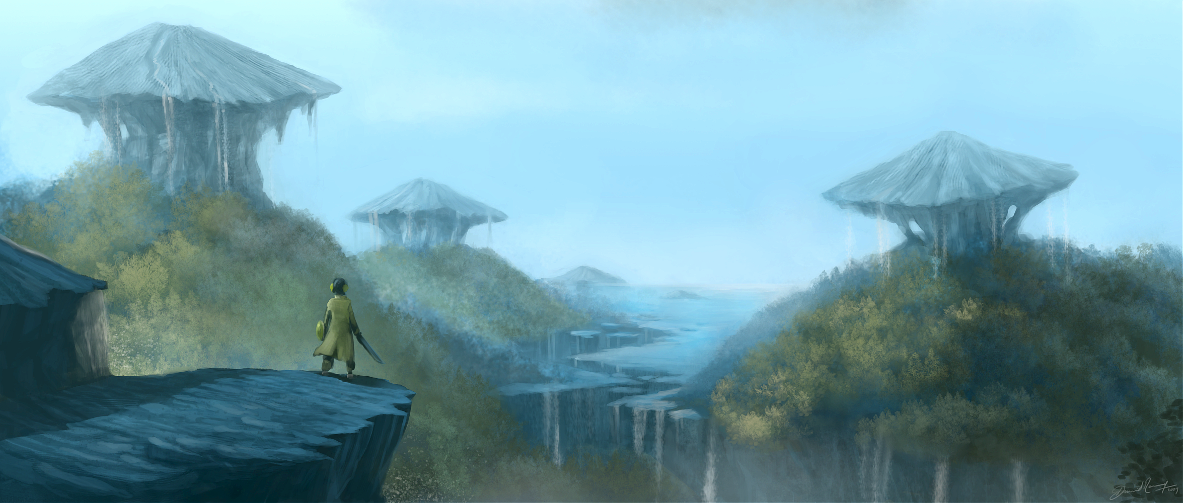 Artwork from the Open Movie Workshop 'Chaos&Evolutions'. A DVD training about digital painting, concept art, Gimp-painter 2.6 and Mypaint 0.7 .